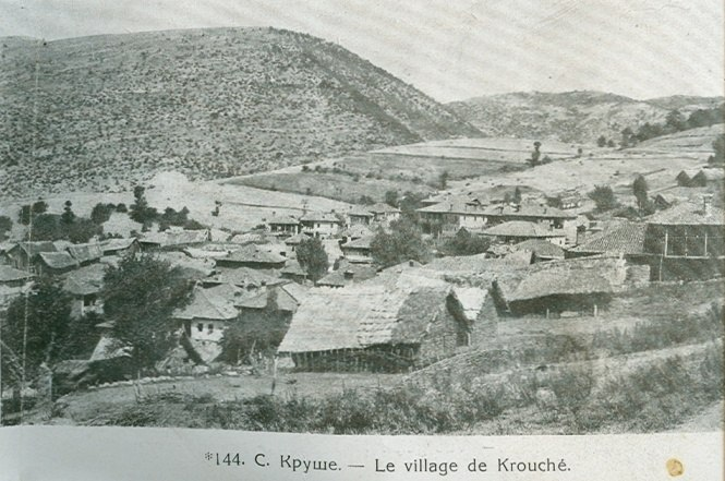 Village of Krushe, Resensko, Republic of Macedonia